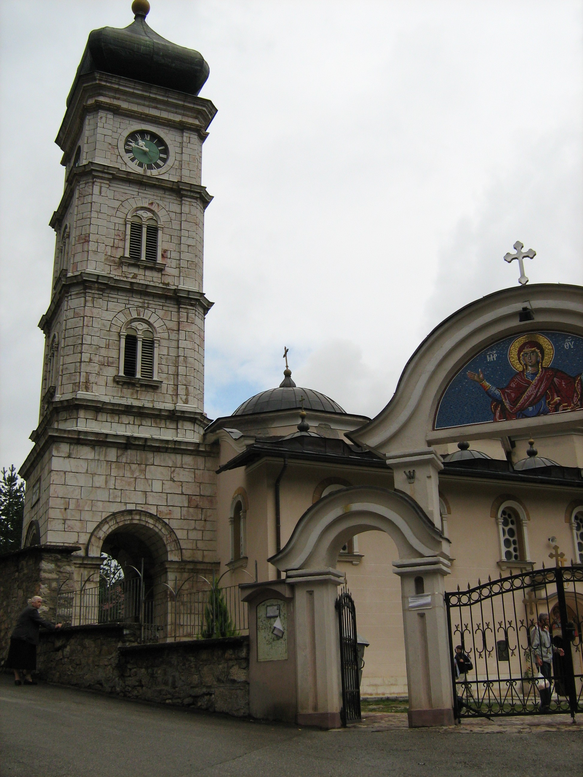 Serbian Orthodox Church, Čajniče, Republic of Srpska